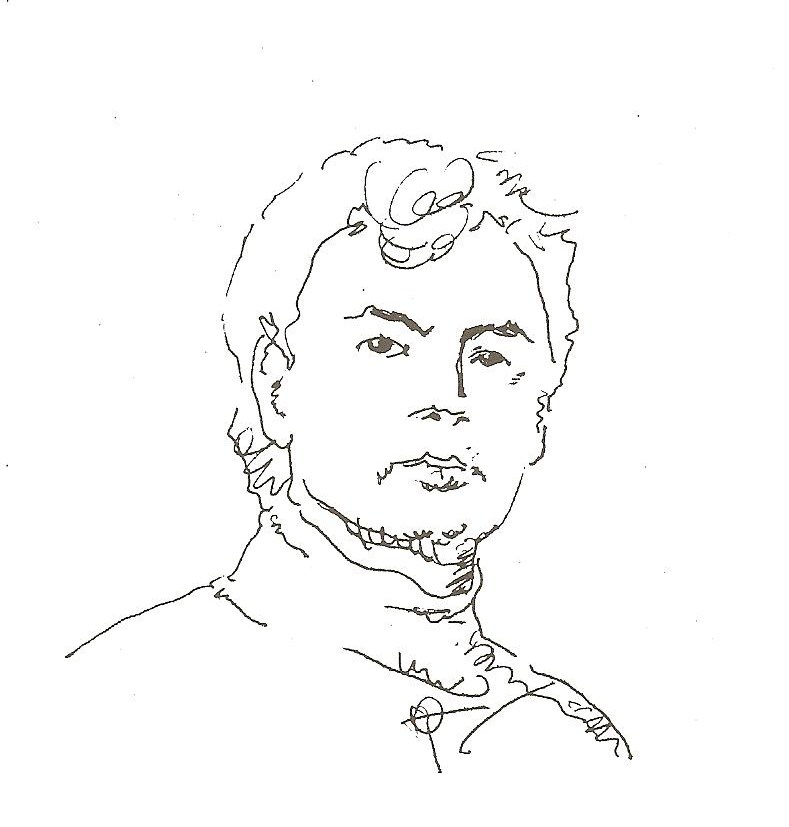 Drawing by Zoran Tucić used for the book Razgovori (Conversations) by Dejan Stojanović